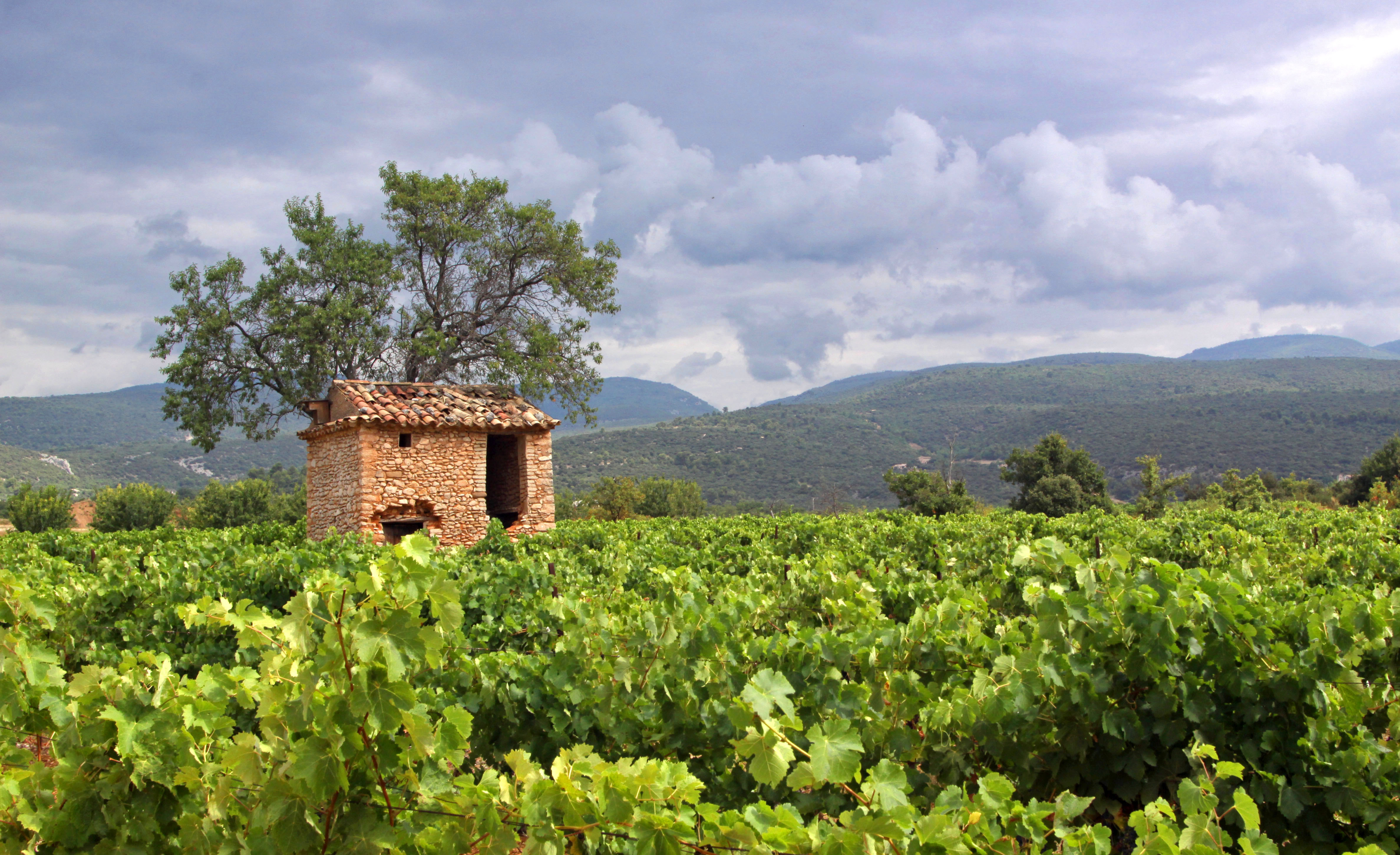 Vineyards in the French wine region of Vaucluse along the Luberon in the southern Rhone valley